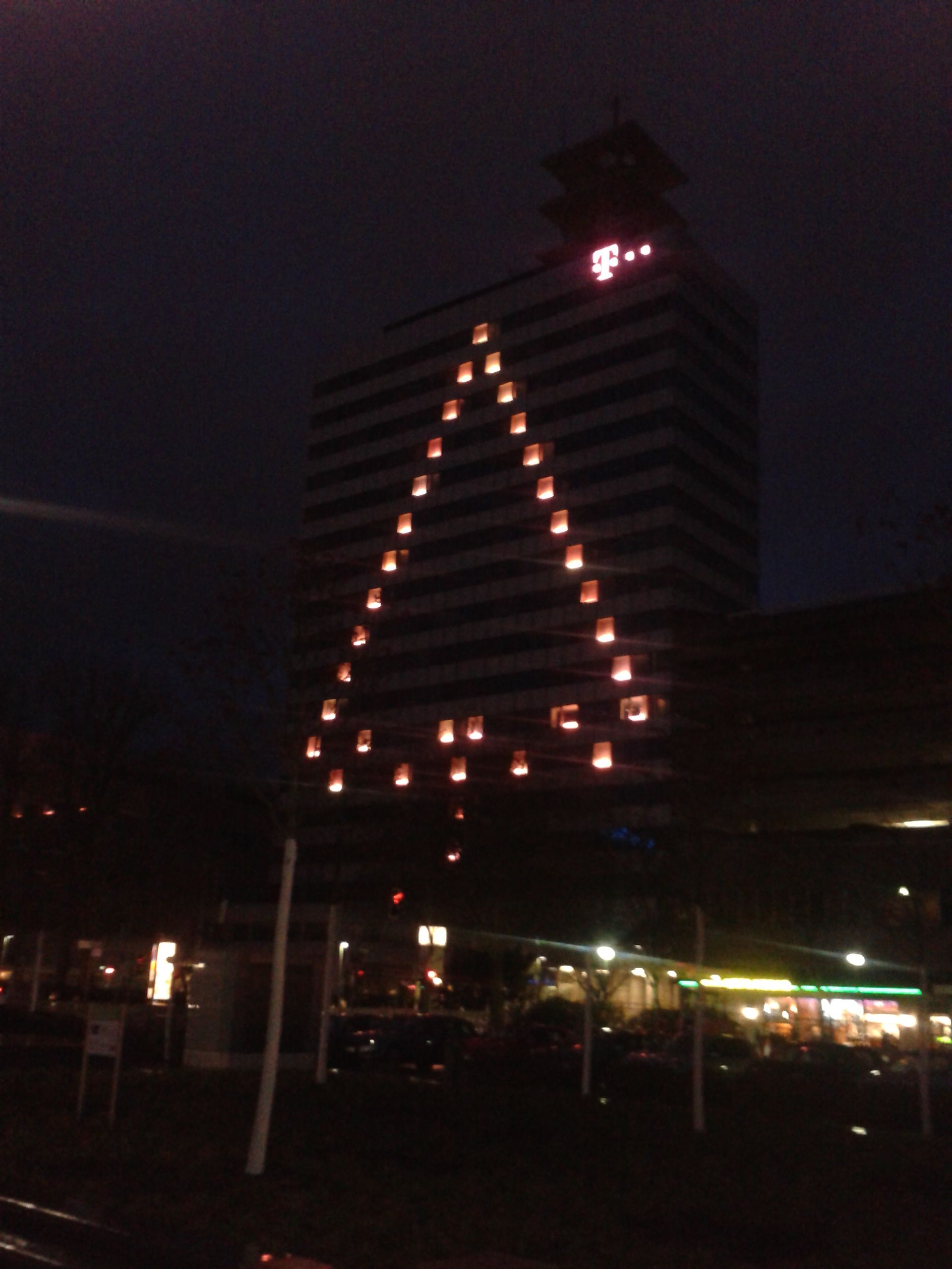 Telekom building at Kesselbrink square in Bielefeld at Christmas time. Windows illuminated like a Christmas tree.